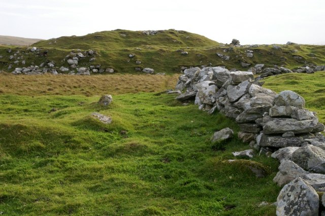 Snabrough broch, near to Lund, Shetland Islands, Great Britain. At least one other broch can be seen from every broch in Shetland; from a tower on this site the brochs at Hoga Ness and Underhoull on Unst and the one north of Cullivoe on Yell would all have been visible.